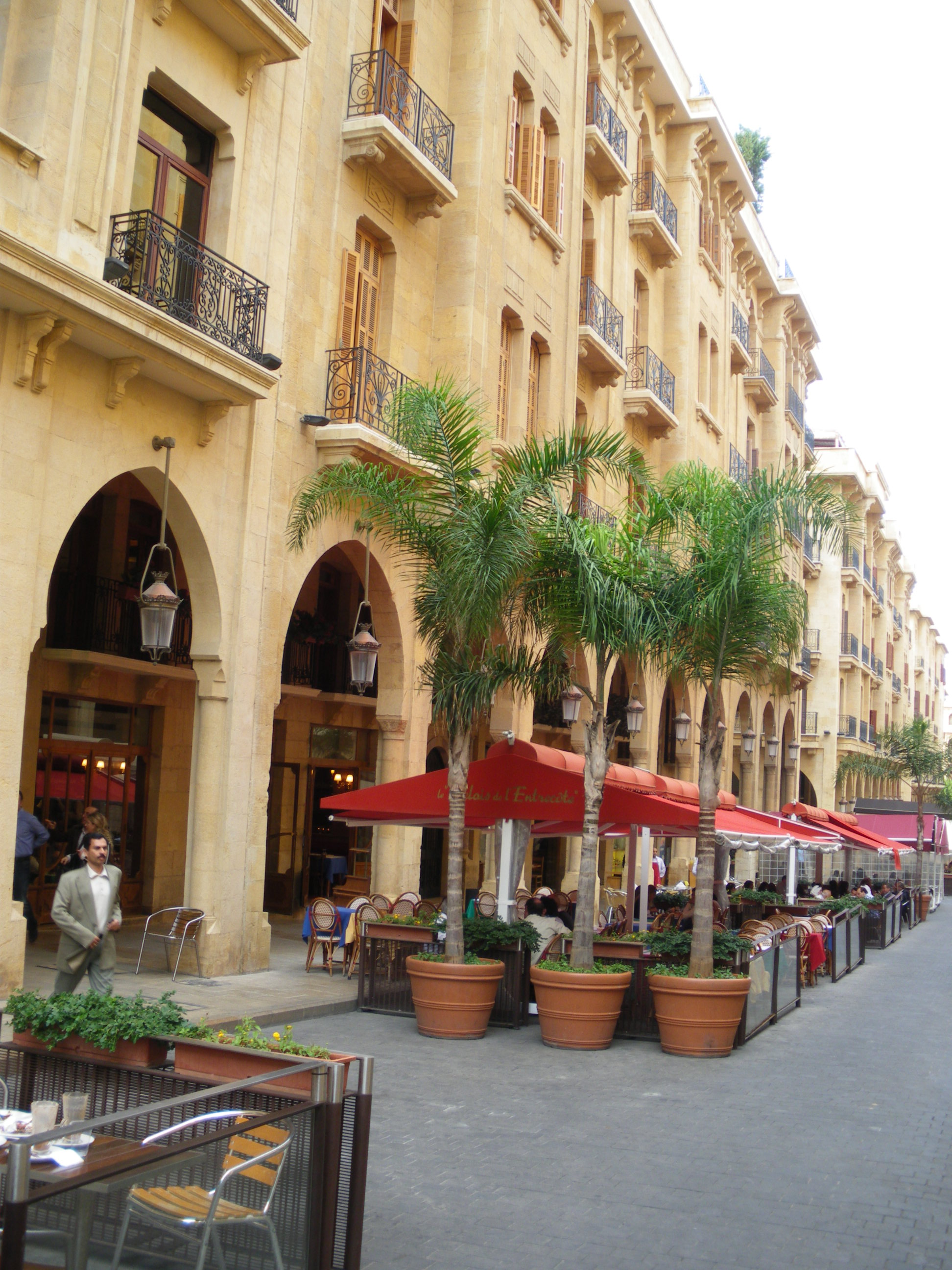 These superb photographic works, we had made during our holiday to Beirut, the capital of Lebanon in November 2008. Thanks to massive security operations in place in the city, we were sometimes hindered to photograph or on one or two occasions, we had been ordered to delete certain pictures! So these would not have been all pictures from beautiful Beirut, when we had our way! This was a sad example for a nation, which should be free and should present itself in an open way to the world, especially through photography! Thanks! ( Beirut in November 2008 and the question, can I take a photo and show the world or not? ).